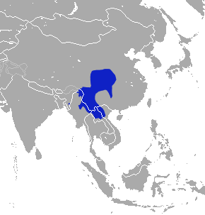 Chinese Mole Shrew (Anourosorex squamipes) range